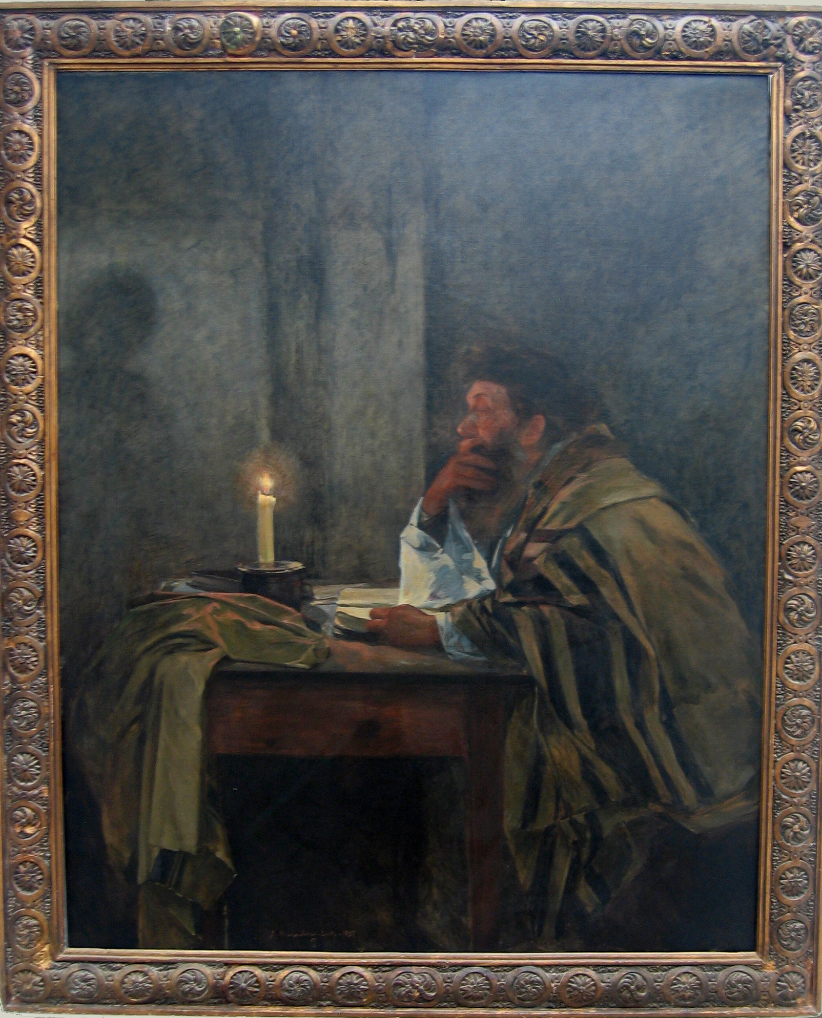 The last prayer (1897) by Samuel Hirszenberg, Museum of Art, Ein Harod